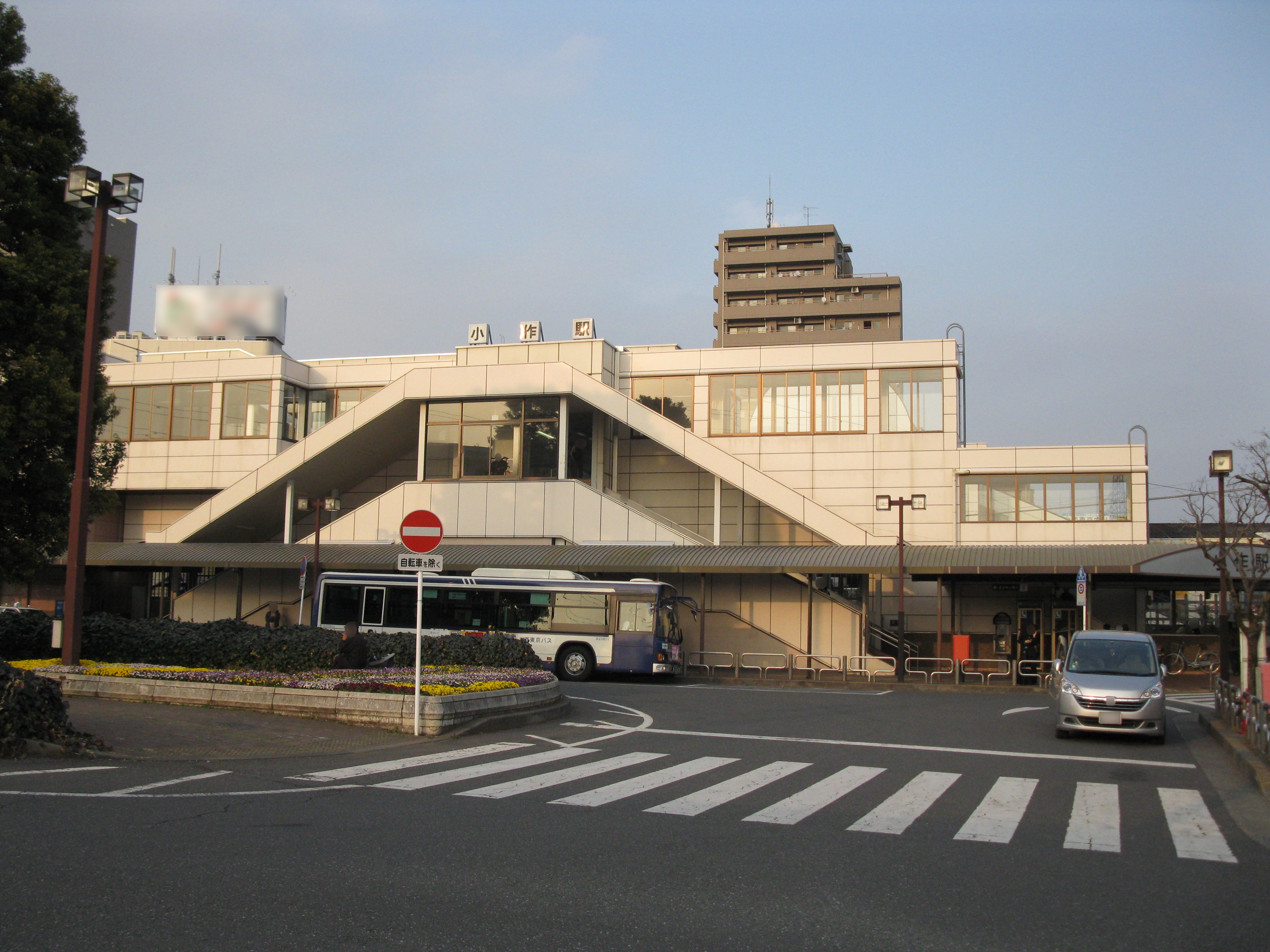 Ozaku Station west entrance (East Japan Railway Ōme Line)